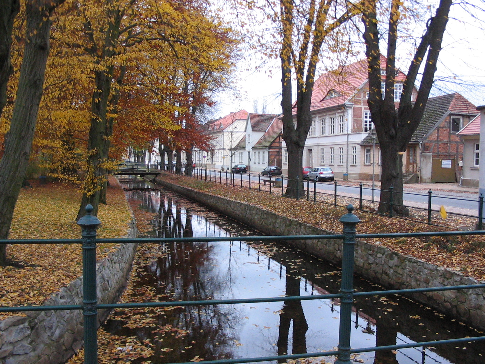 Canal Ludwigsluster Kanal, next to the street Kanalstraße in Ludwigslust, disctrict Ludwigslust, Mecklenburg-Vorpommern, Germany